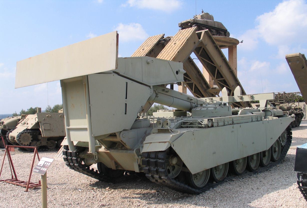 Description: Centurion-based bridgelayer, formerly of the Dutch Army, in Yad la-Shiryon Museum, Israel. 2005. Source: Photo by me, User:Bukvoed.